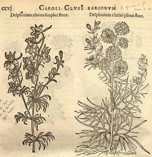 Illustrations of Delphinium ajacis (as Delphinium elatius) in Rariorum plantarum historia (1601) by C. Clusius